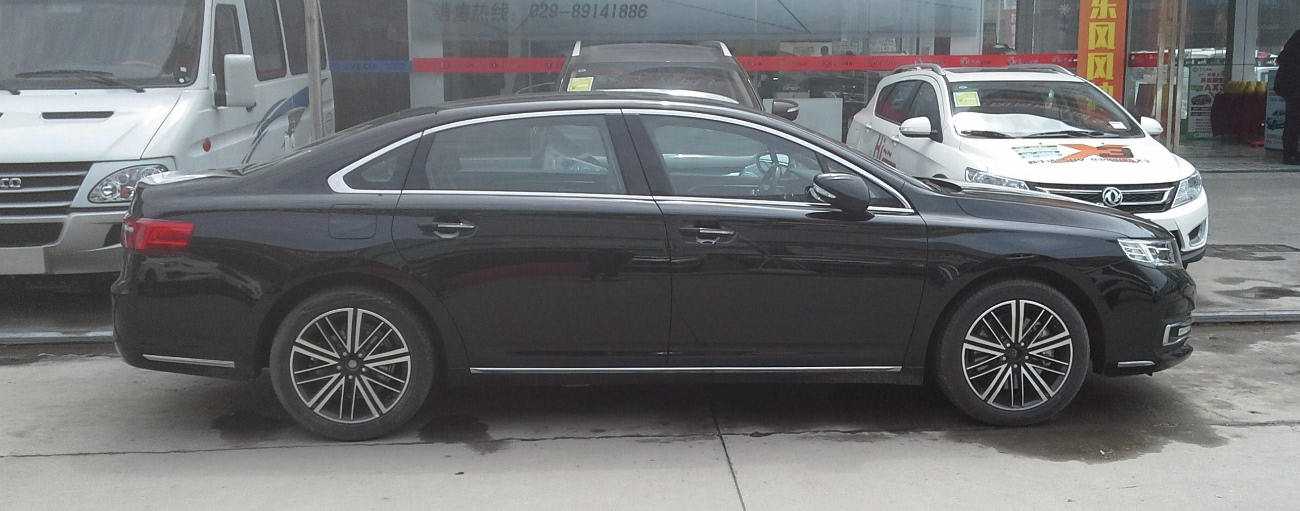 Dongfeng Aeolus A9 photographed in Xi'an, Shaanxi province, China.